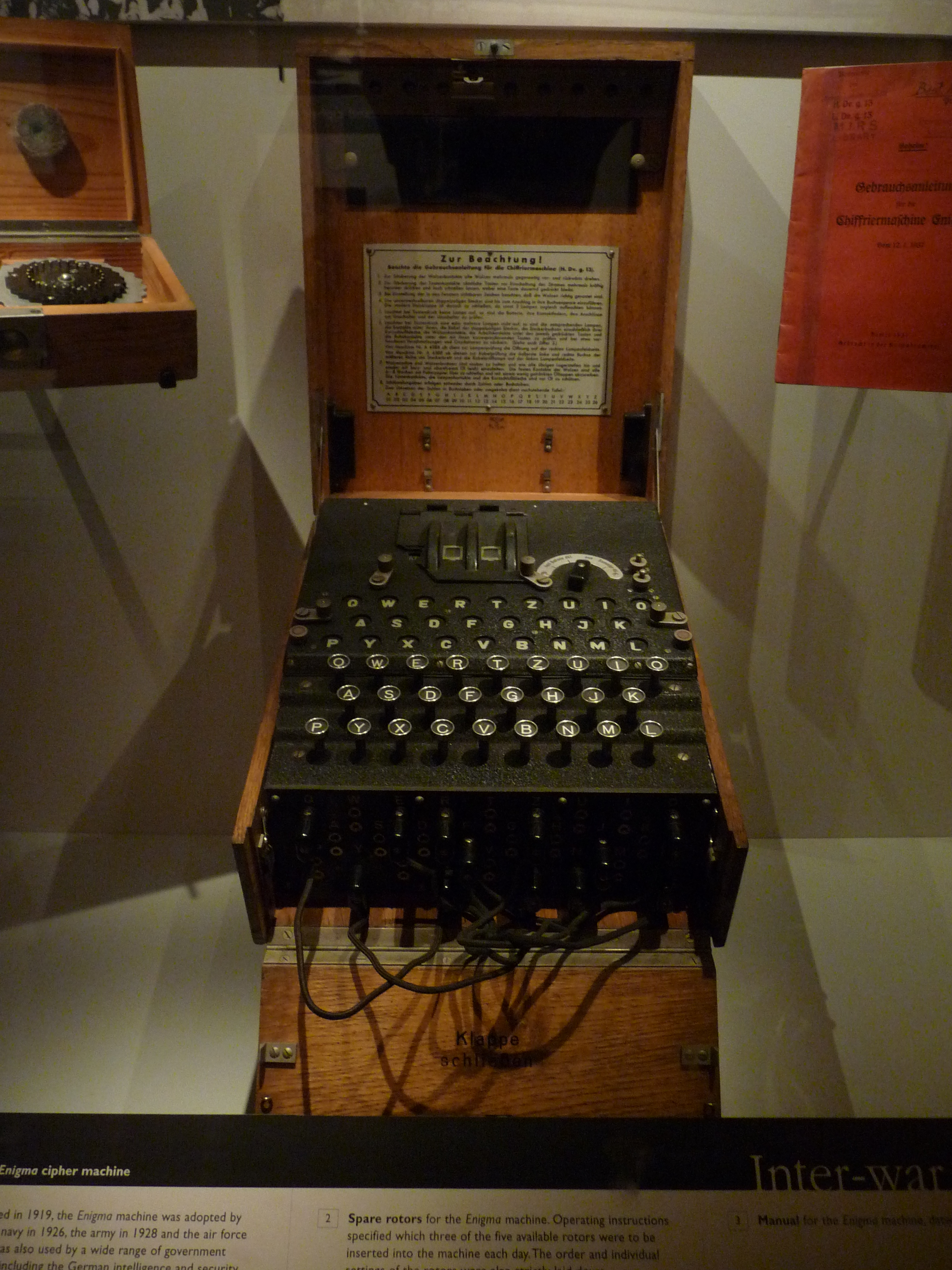 An image of an Enigma machine from the Imperial War Museum in London.